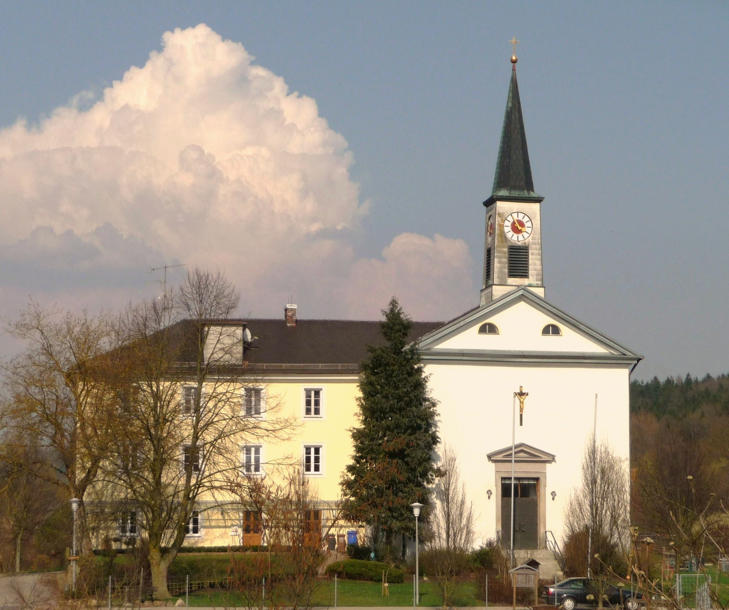 Parish Church of St John of Nepomuk in Dorfbach near Ortenburg. The church was built in 1835–6 within the walls of the hall of the demolished castle.